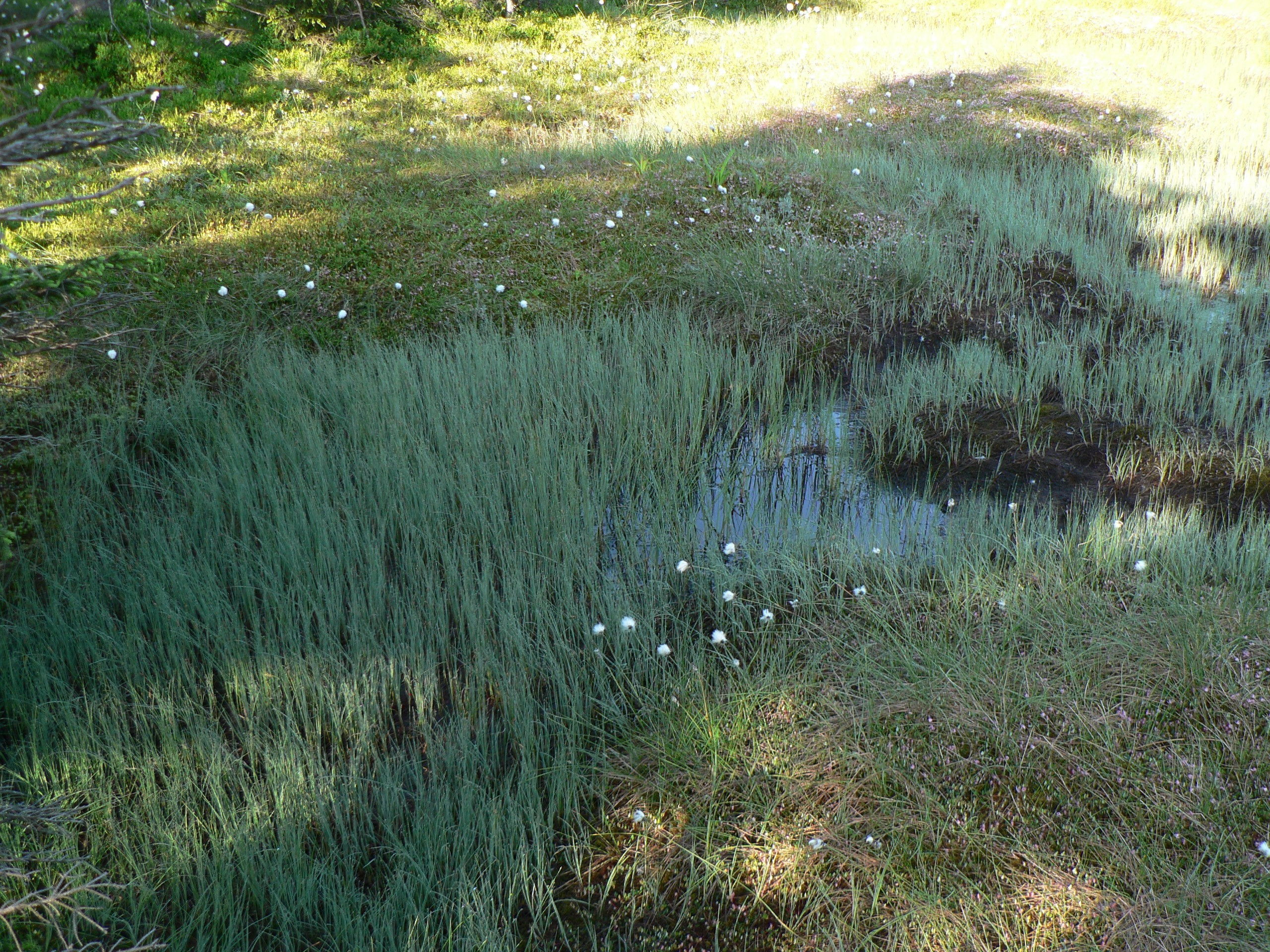 Carex limosa on Trojmezi, Hruby Jesenik mountains, Czech republic